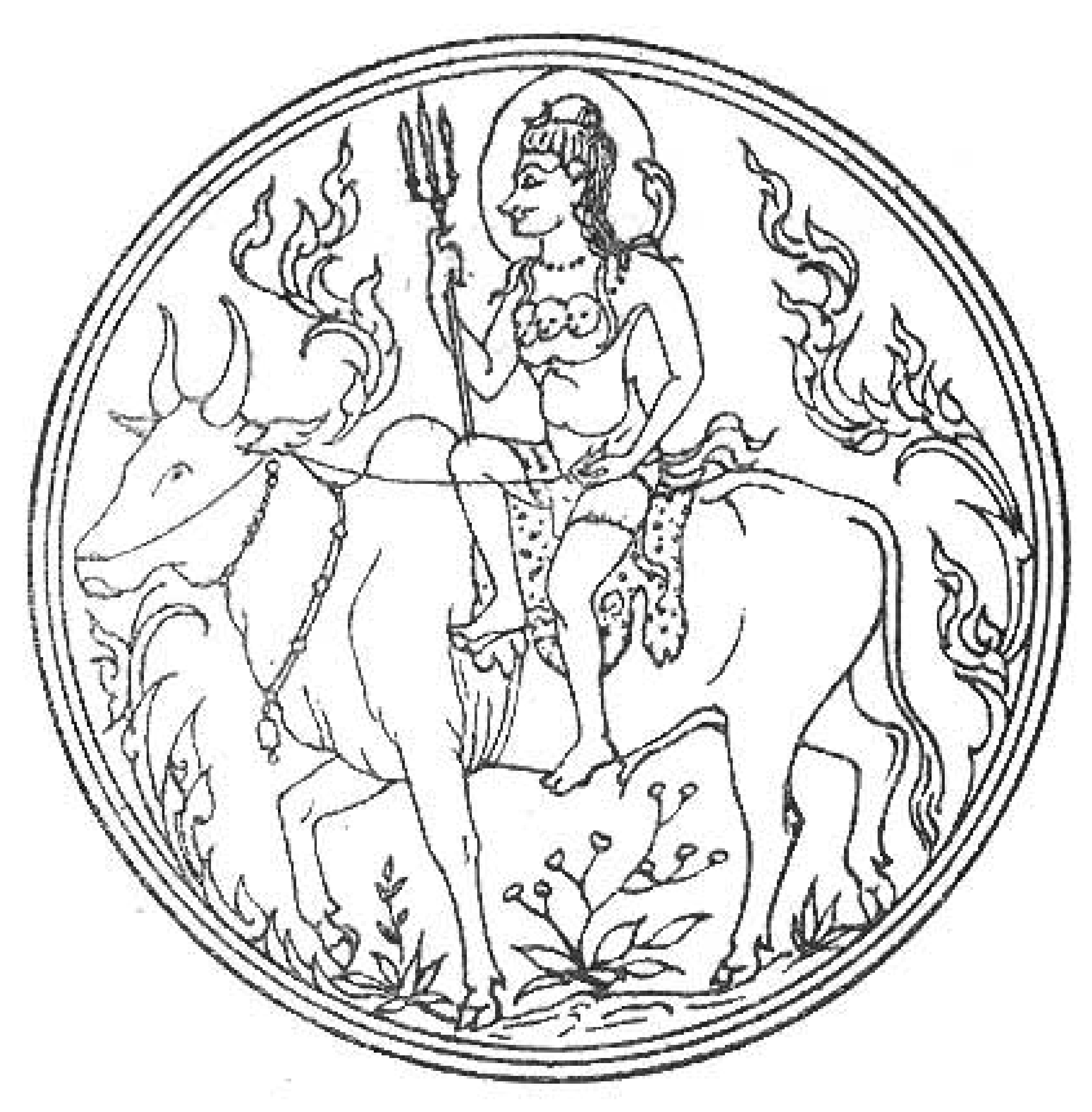 The Seal of Shiva on Nandi's Back, see detailed information in The Royal Emblems and the Positional Seals by Phraya Anumanratchathon (Yong Sathiankoset).